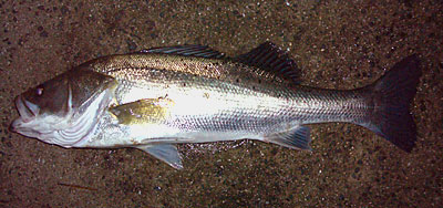 Lateolabrax japonicus